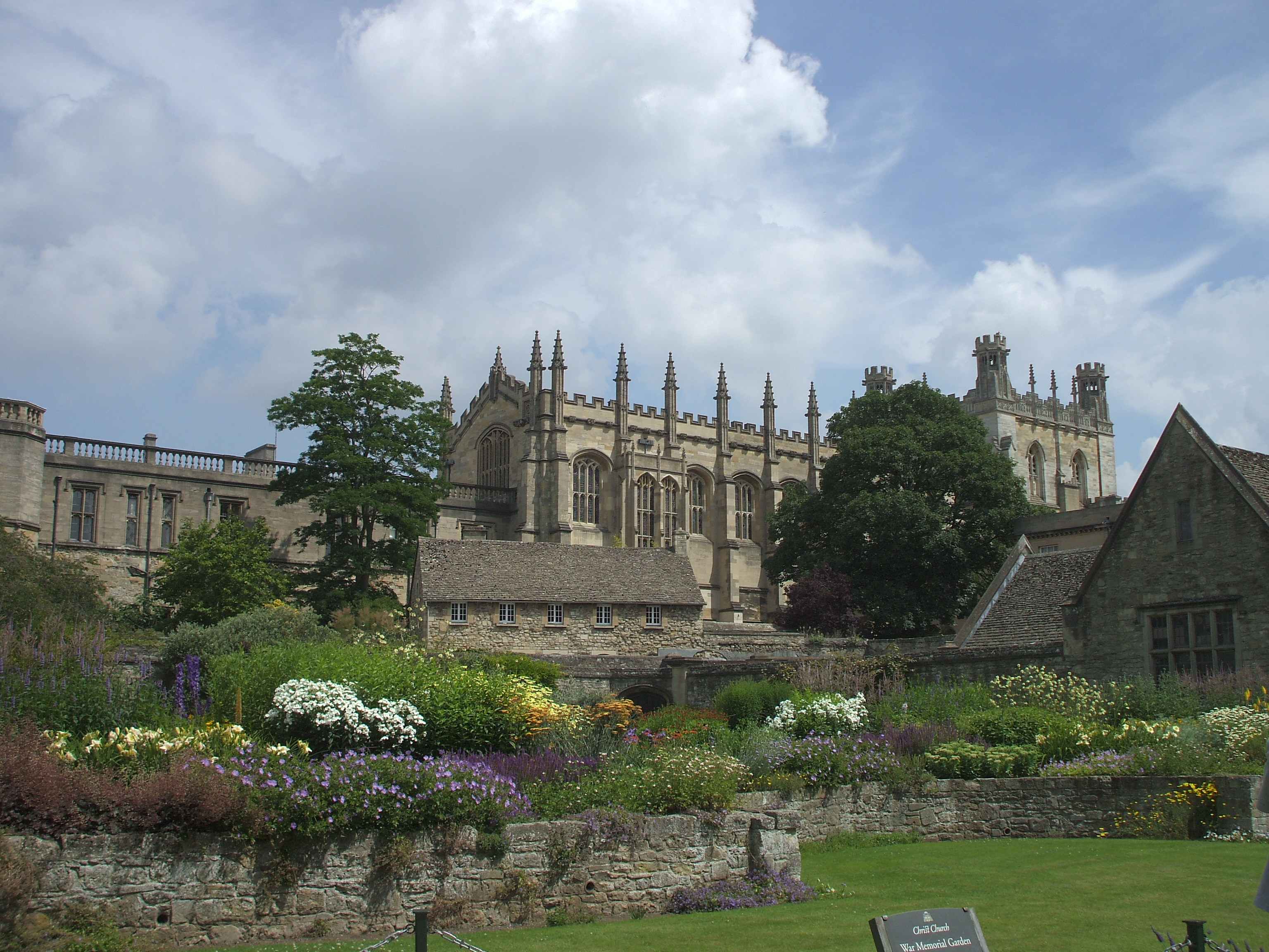 Christ Church Hall and Fell Tower as viewed from the College's gardens adjacent to the Meadow Building.